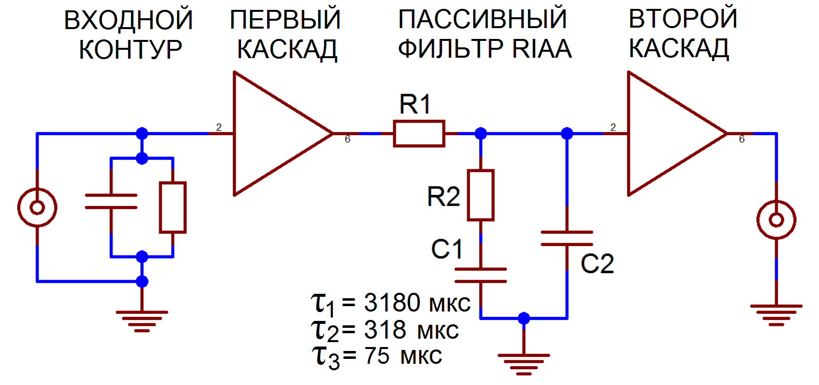 Simplified RIAA passive, lumped-filter stage schematic